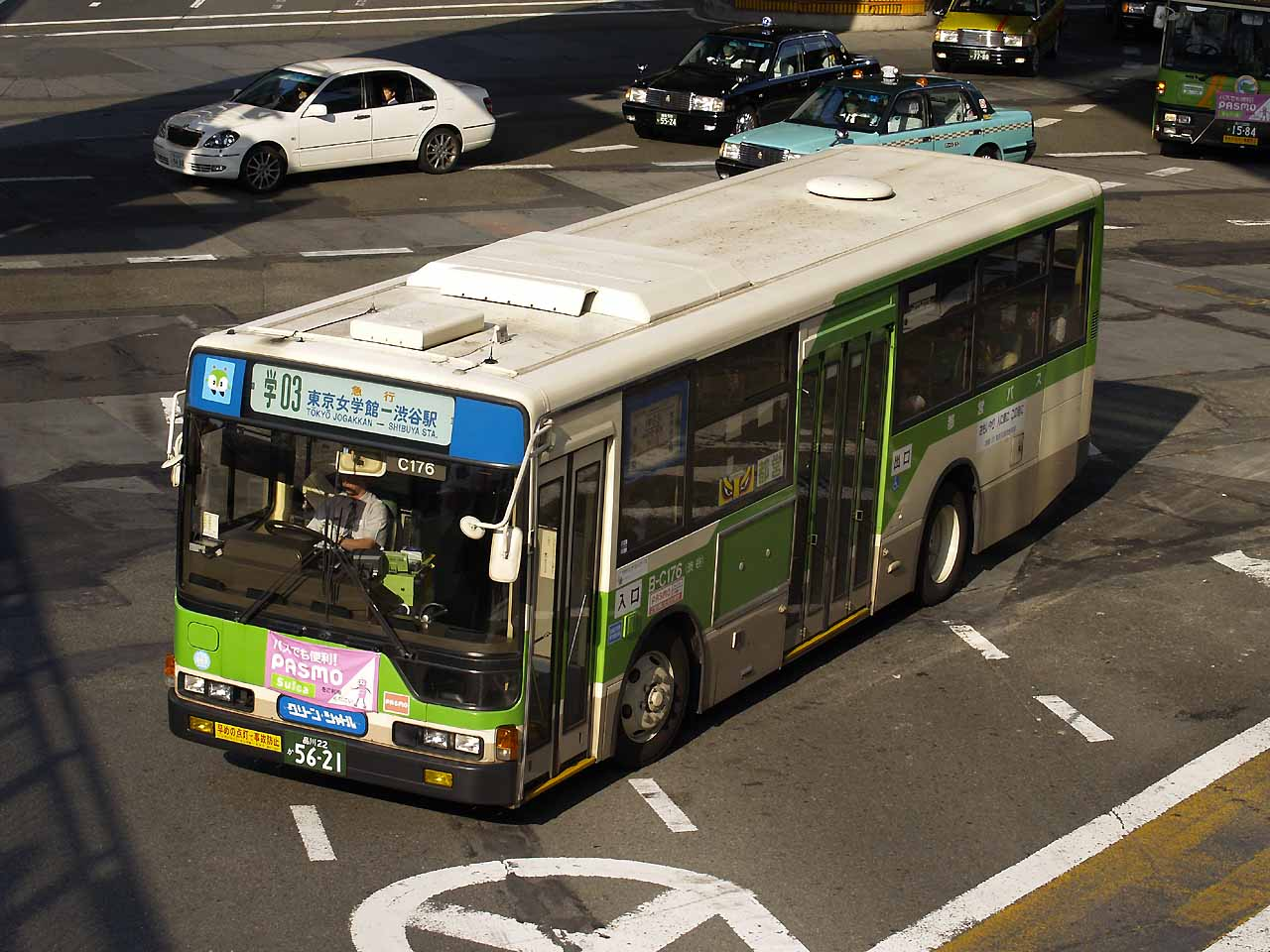 Toei Bus GAKU03（学03） route bus arriving to Shibuya station, express bus for Tokyo Jogakukan Junior&Senior high school student only. Model: MItsubishi Fuso Aero Star KC-MP717K License plate: TKS22 KA5621（品川22か5621） Place: neighbour of JR Shibuya station: Shibuya ward, Tokyo Japan